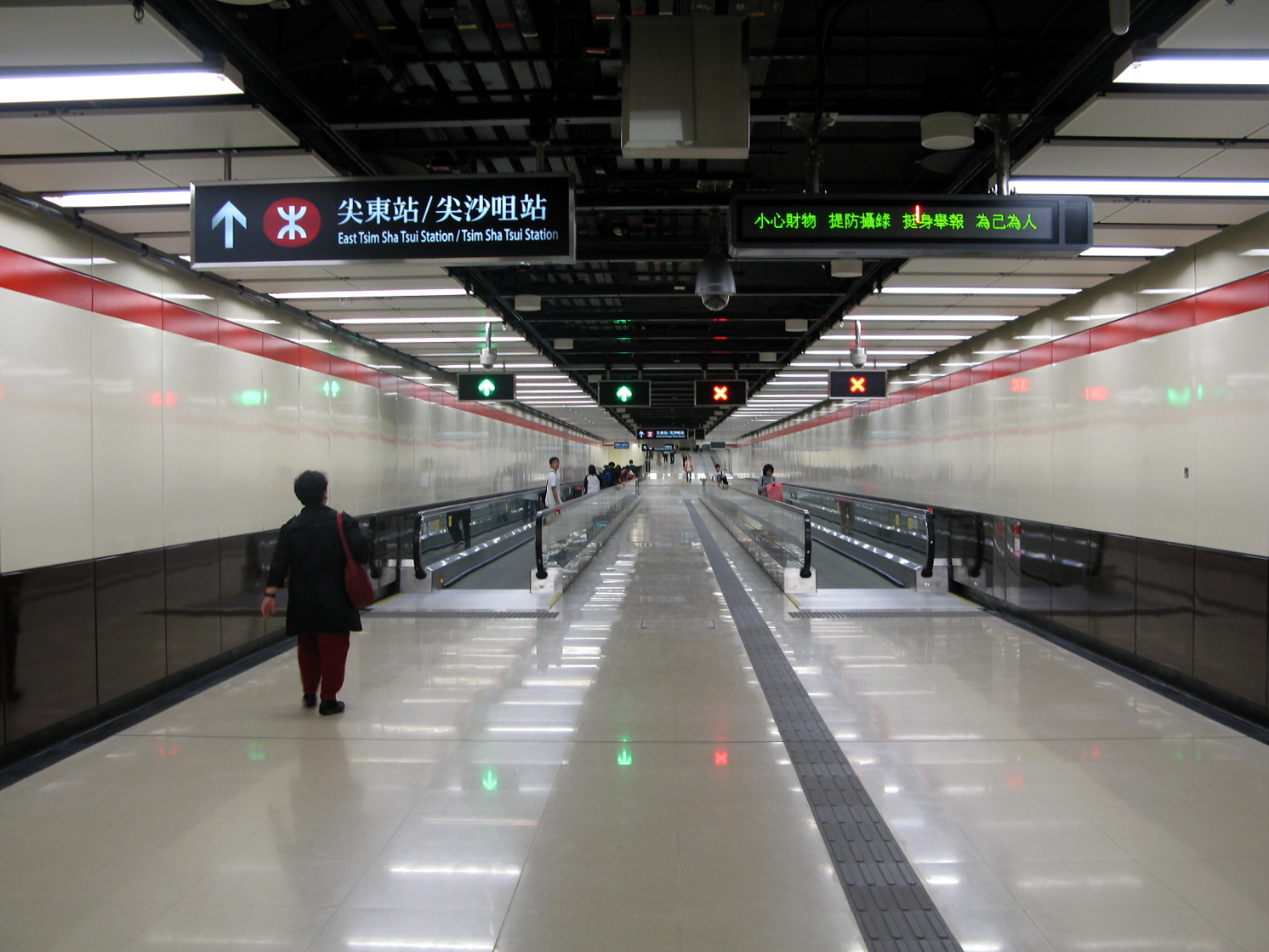 East Tdim Sha Tsui Sation Red Zone L3 Exit 尖東站／尖沙咀站L3出口